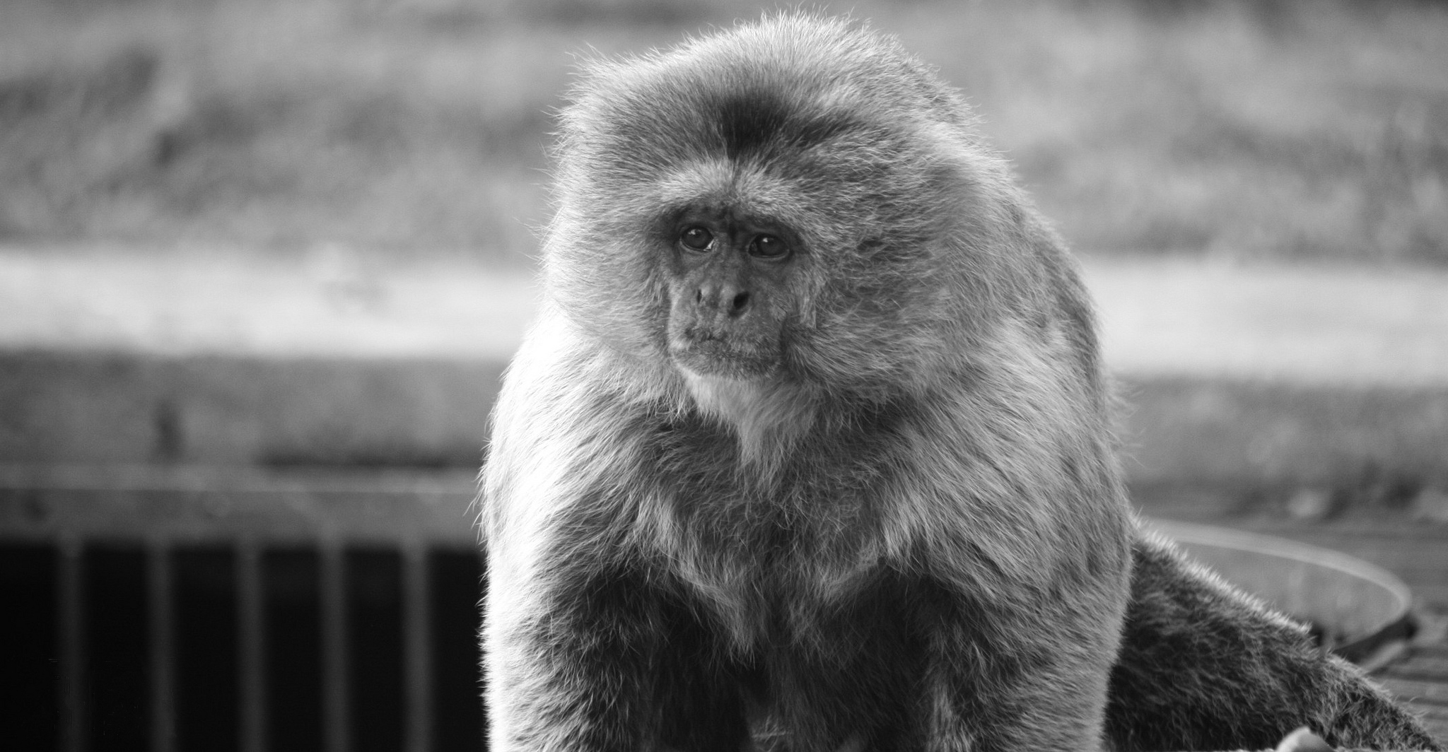 Callimico goeldii in Venezuela. Photographed with a Canon EOS Digital Rebel XSi. Settings: 1/250 ƒ/5.6 ISO 800 300mm